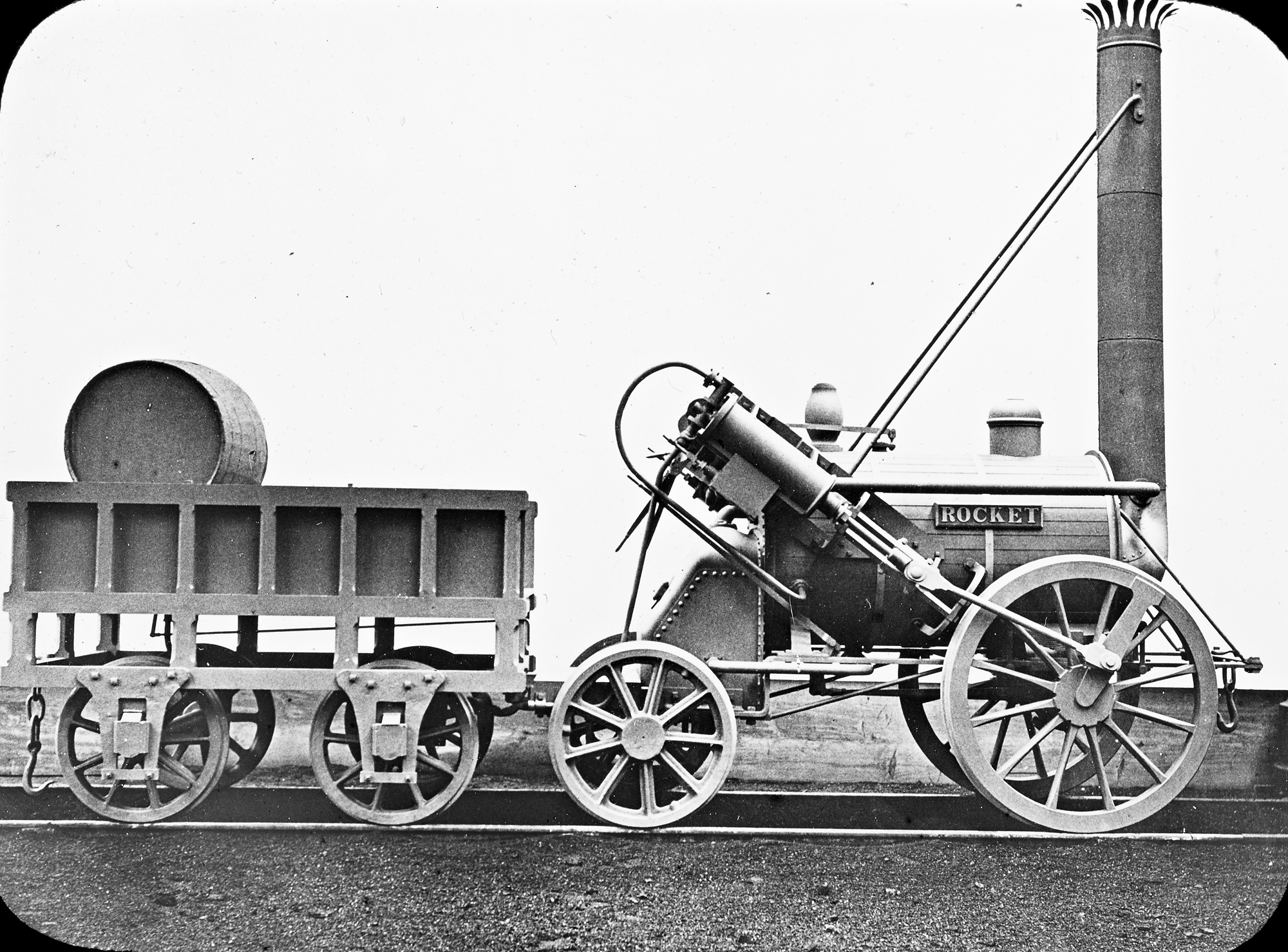 We are going to start this week with a BANG! A Rocket no less from the Mason collection but this was as Carol would say "out forring!" Mason had many shots in his collection that came from sources other than his own photography. The wonderful Rocket was the wonder of its age and has lost none of its appeal for anoraks and children! With thanks in particular today to [/photos/8468254@N02/ derangedlemur], [/photos/129555378@N07/ sharon.corbet], [/photos/beachcomberaustralia/ beachcomberaustralia], and [/photos/91549360@N03/ O Mac], it seems likely that this item from the Mason Collection is a copy of a similar image used for a turn-of-century London and North Western Railway postcard. While the whiteout on the background make it difficult to judge scale or location, today's contributors highlight the similarity with this LNWR postcard from 1904, likely making the engine shown a late-19th/early-20th century replica or model. O Mac offers a concrete theory that what we see here therefore is a model built by the chief mechanical engineer of the LNWR in the mid-1880s, for the Liverpool Exhibition of 1887... Photographer: Thomas H. Mason Collection: Mason Photographic Collection Date: ca. 1890-1910 NLI Ref: M24/62/4 You can also view this image, and many thousands of others, on the NLI’s catalogue at